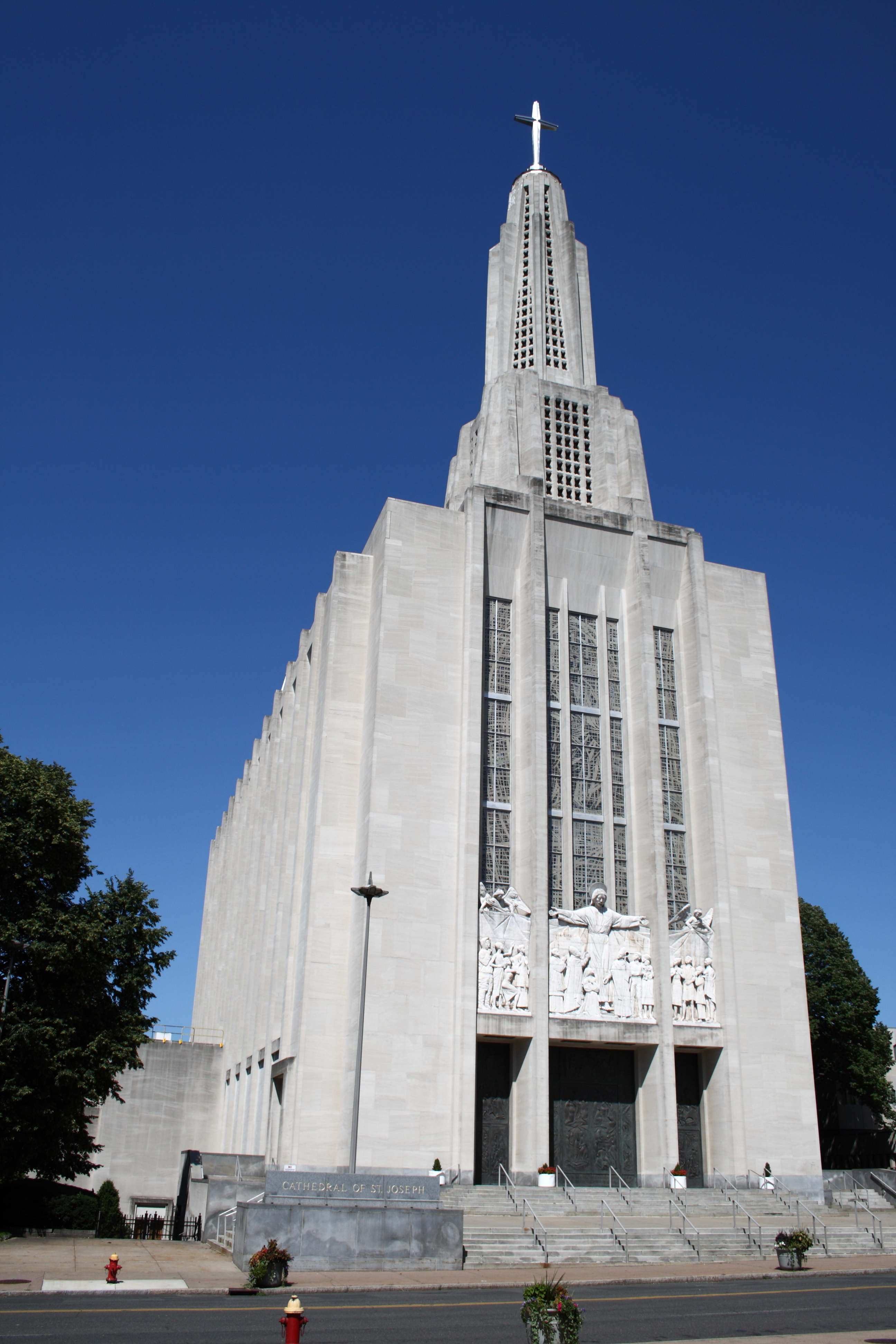 Cathedral of Saint Joseph in Hartford, Connecticut - Google Maps - Google Earth